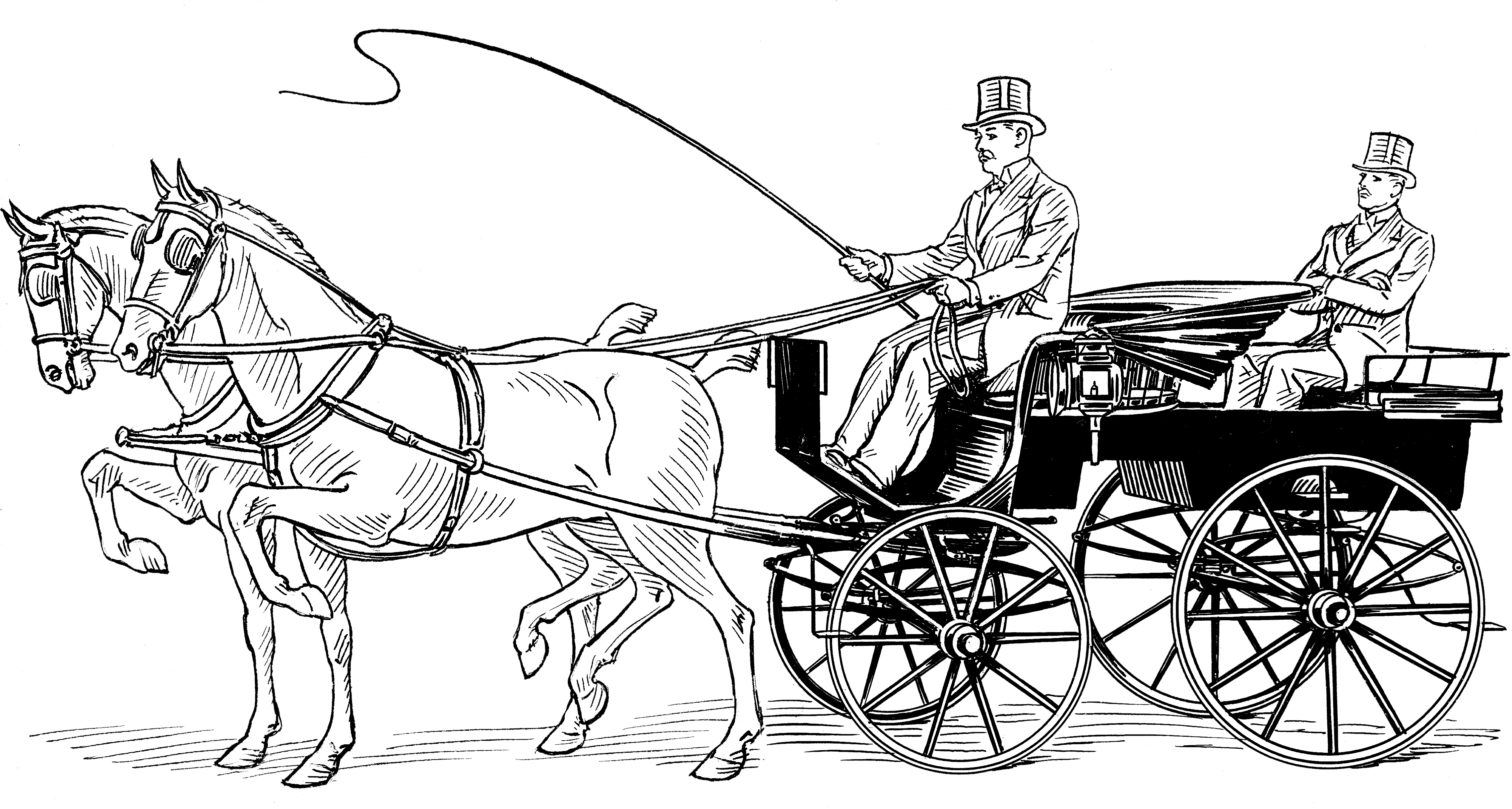 Line art drawing of a phaeton